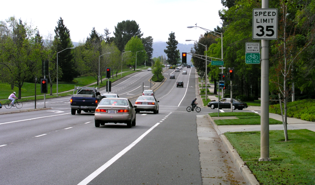 Page Mill Road in Palo Alto, CA, USA. This is an official expressway, despite being more like a typical arterial road, and is 35 mph.